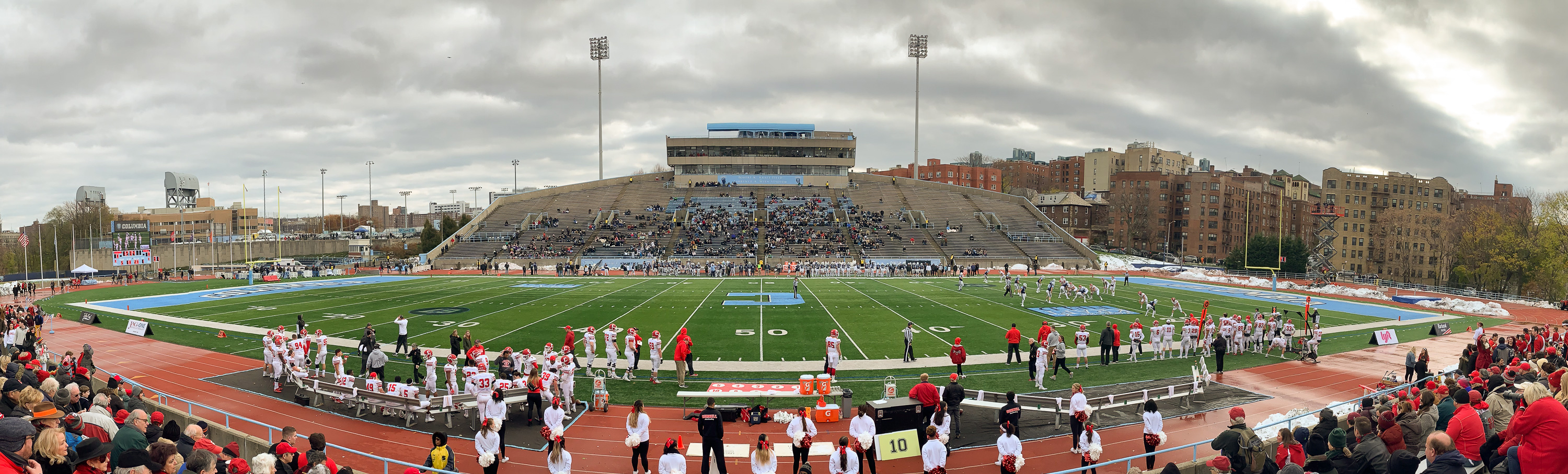 Cornell vs Columbia football at Wien Stadium, Columbia University, November 17, 2018